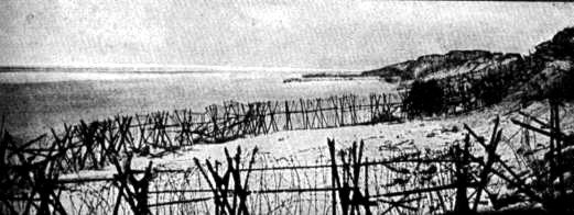 The "End of the Line": the Western Front of World War I reaches the sea near Nieuwpoort, BelgiumDownloaded from [1]